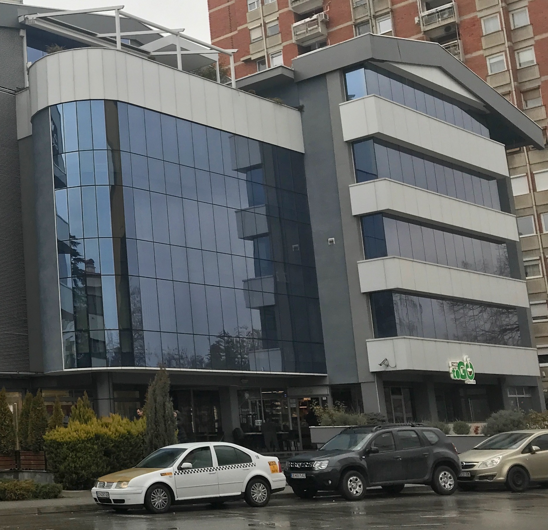 The headquarters of the Masonic Grand Lodge of Macedonia, in Skopje. The ground floor forms the entrance to a shopping centre. All of the four floors above are part of the Grand Lodge building.